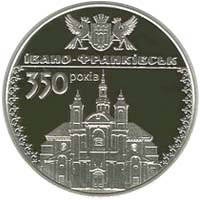 The reverse of commemorative silver coin of Ukraine "350 years of Ivano-Frankivsk" (2012)